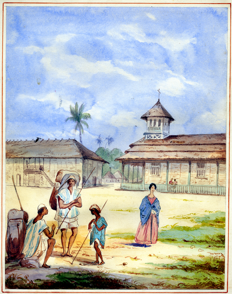 The Square of Barbacoas, Province of Barbacoas